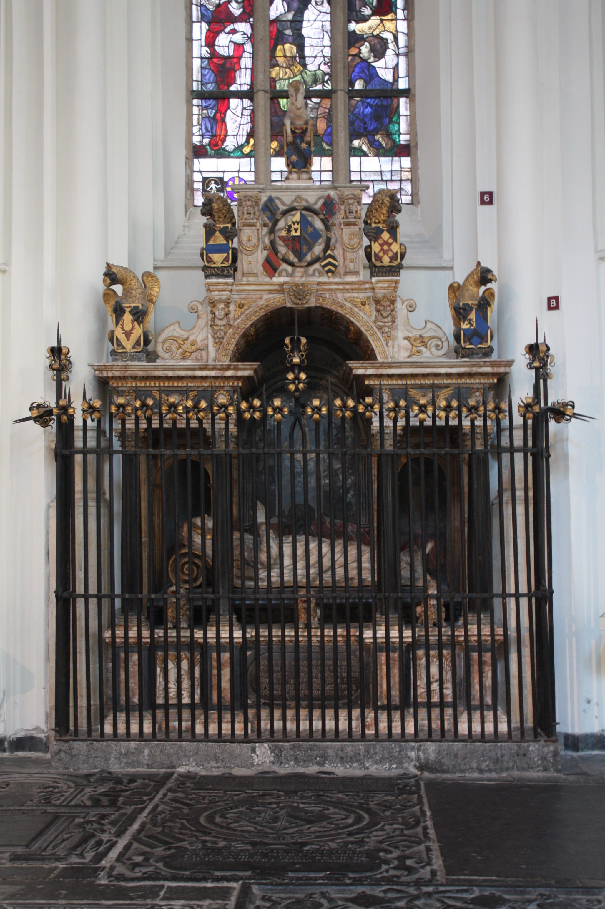 Delft, Oude Kerk (The Old Church)